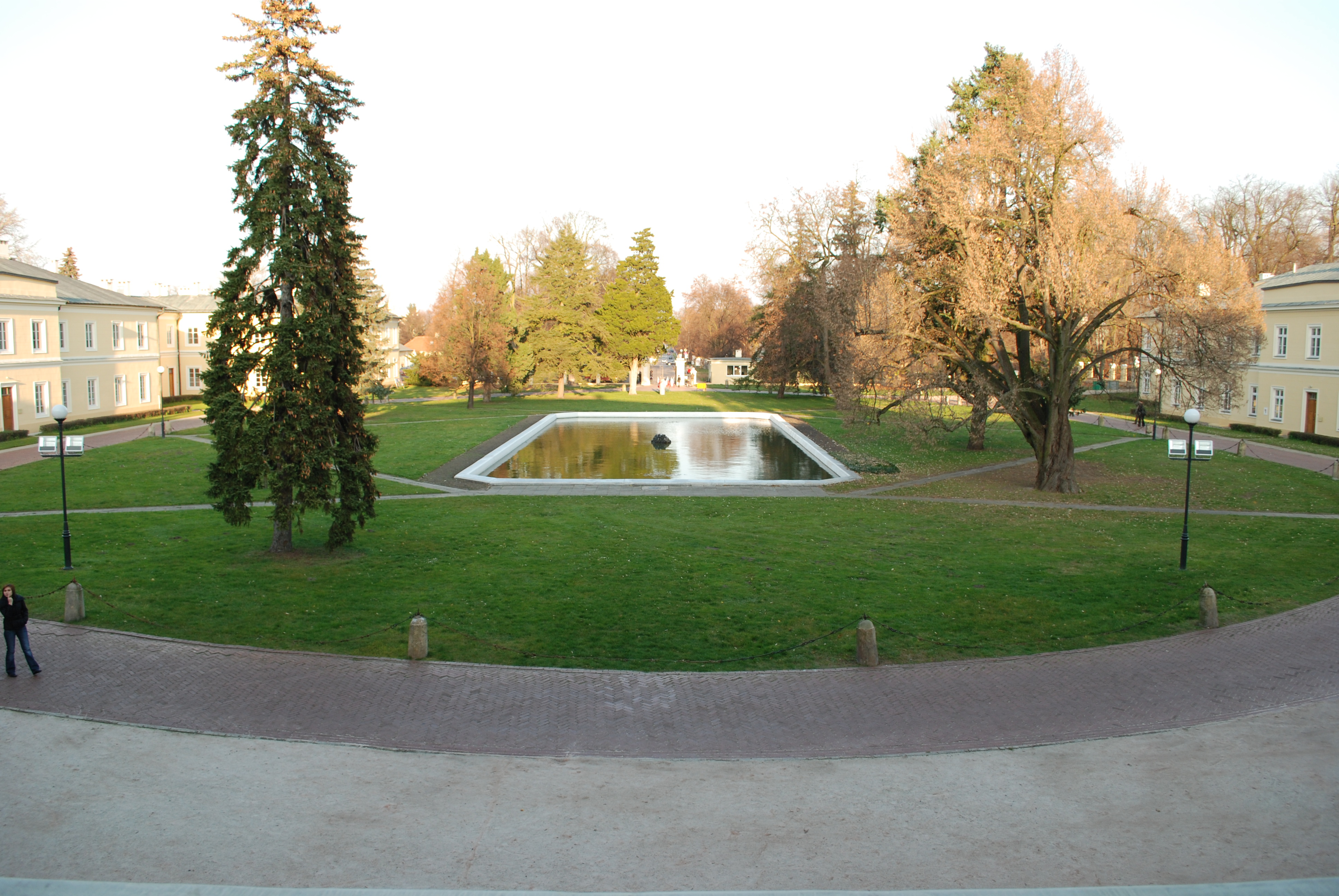 The court of the Czartoryski Palace in Puławy, Poland; view from the first floor's terrace of the palace.